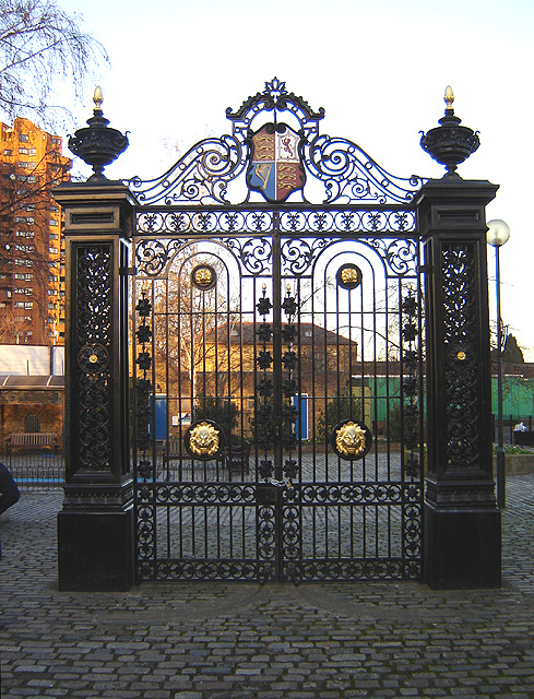 Surviving gate from the old Cremorne Gardens, Chelsea, London. 21 January 2006. Photographer: Fin Fahey.